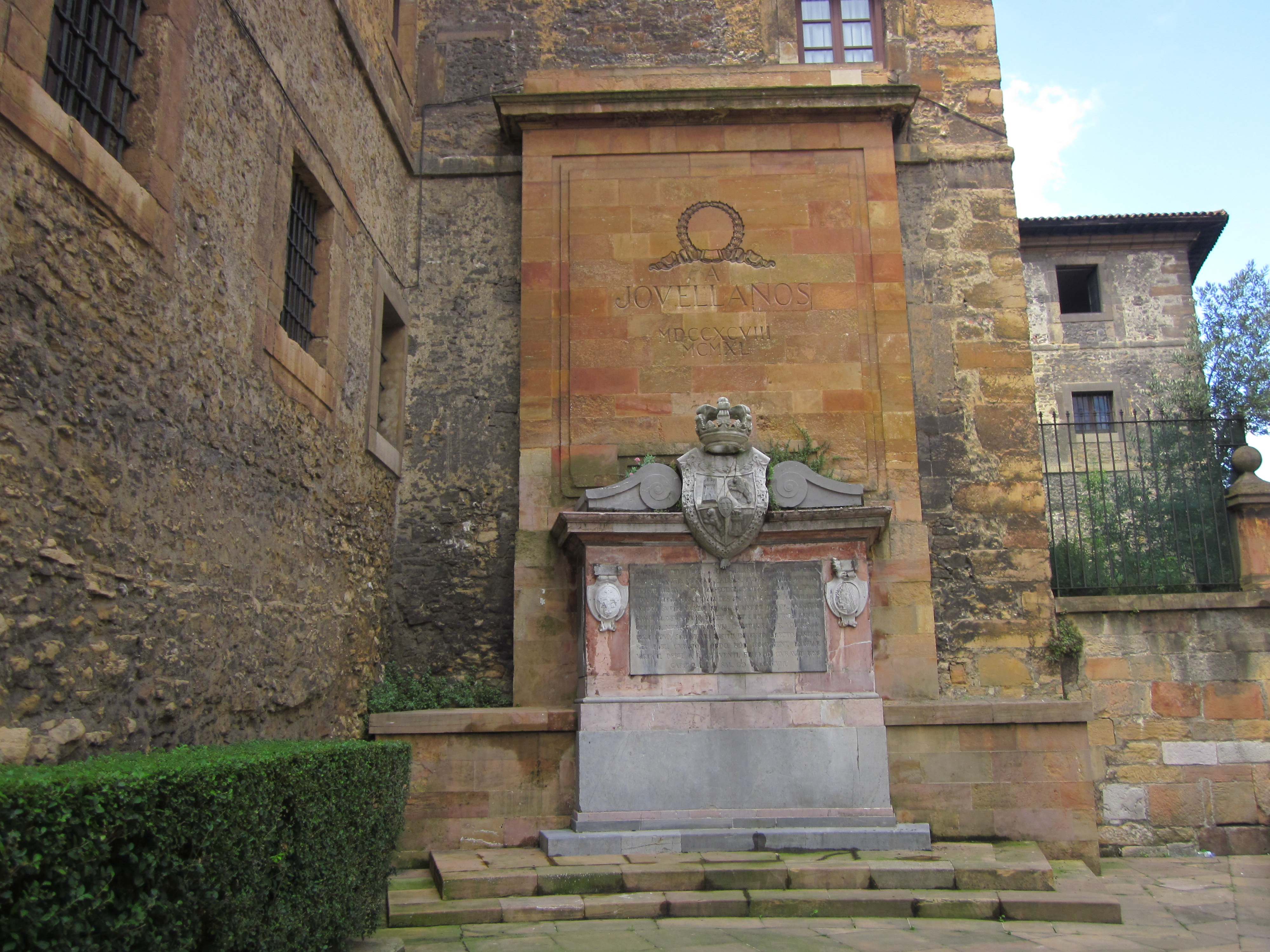 Monument dedicated to Gaspar Melchor de Jovellanos in Oviedo, Spain.